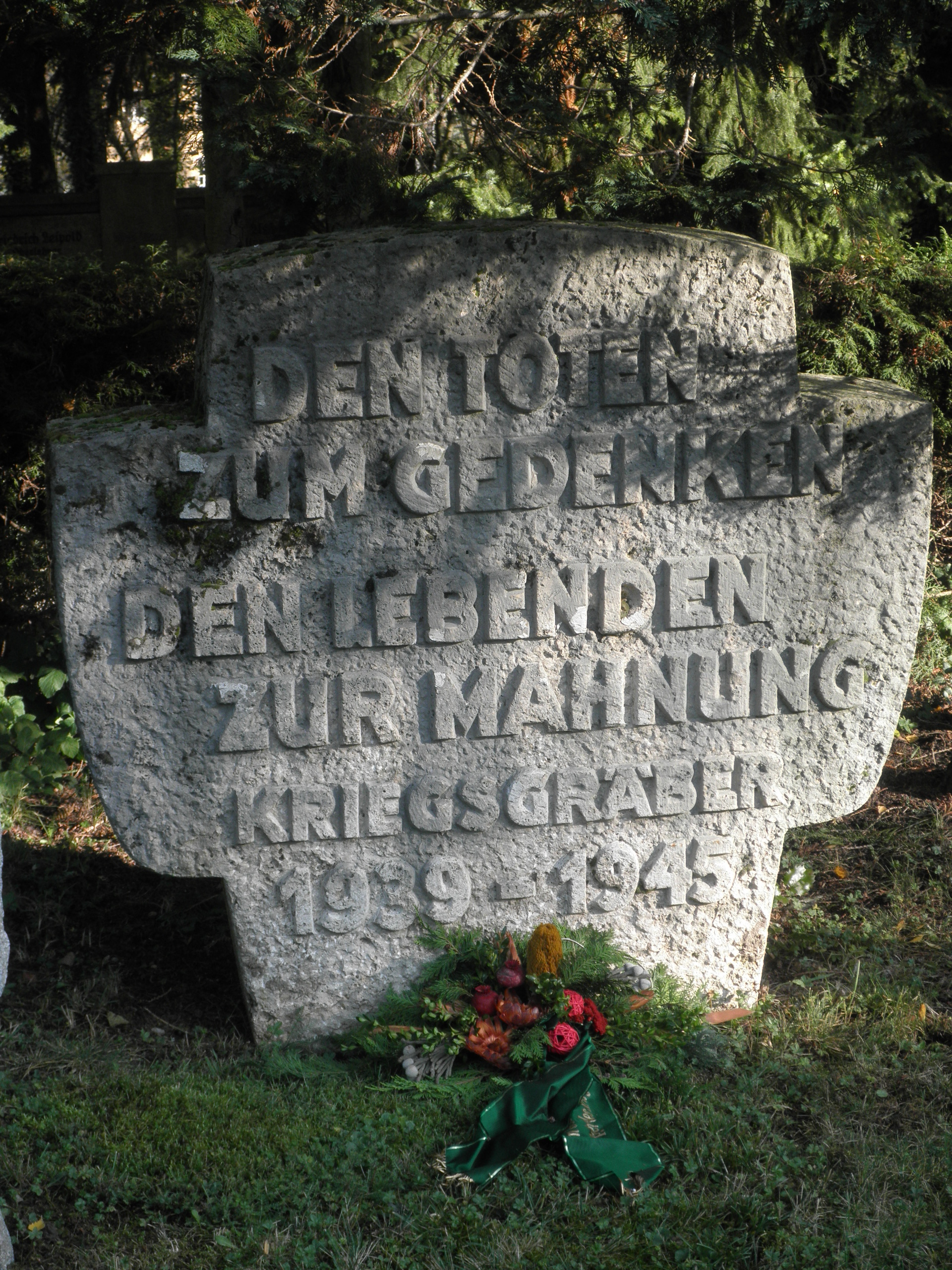 War Victims on Nordfriedhof in Jena